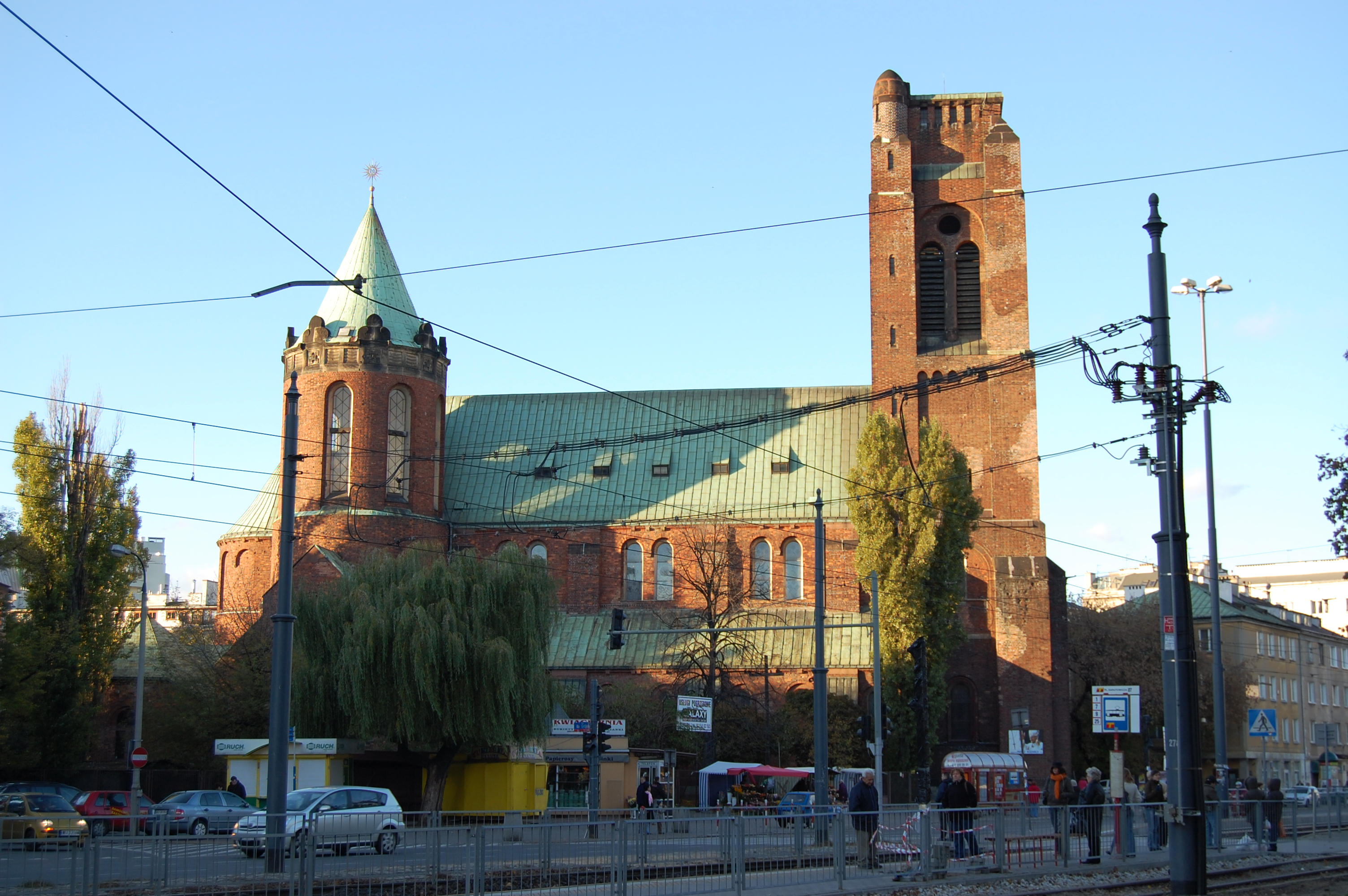 Saint Jacob Church in Warsaw